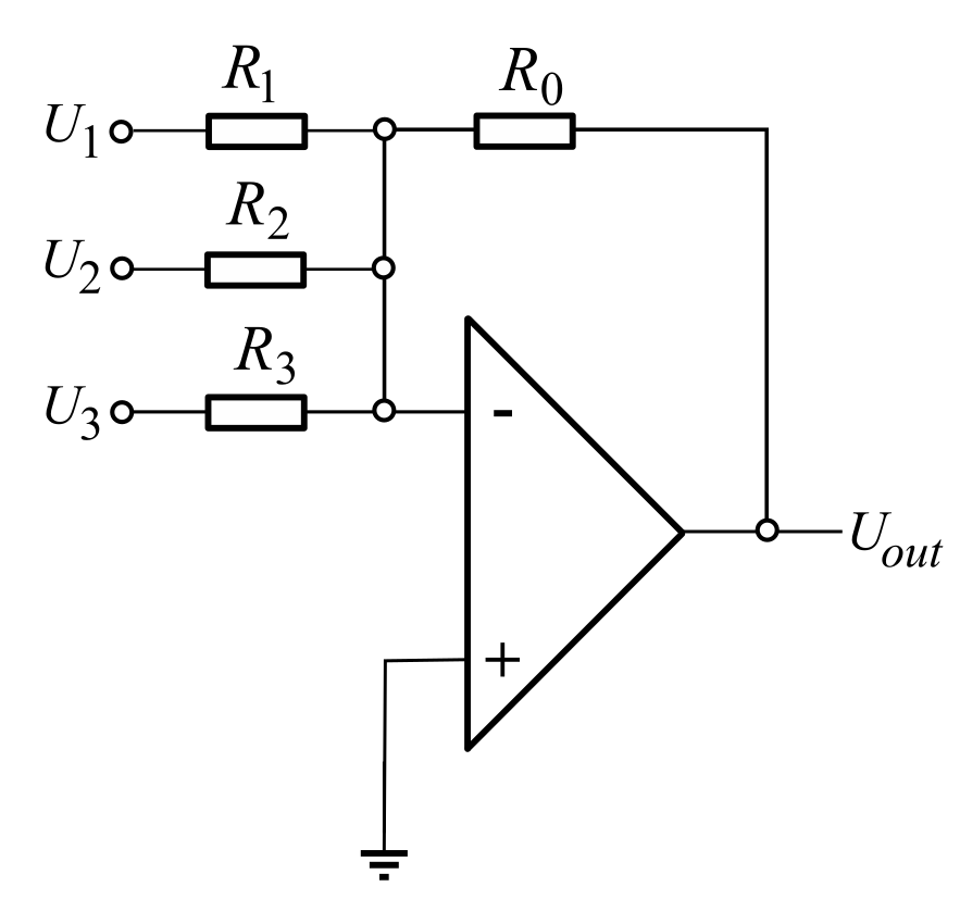 the sum of three input signals